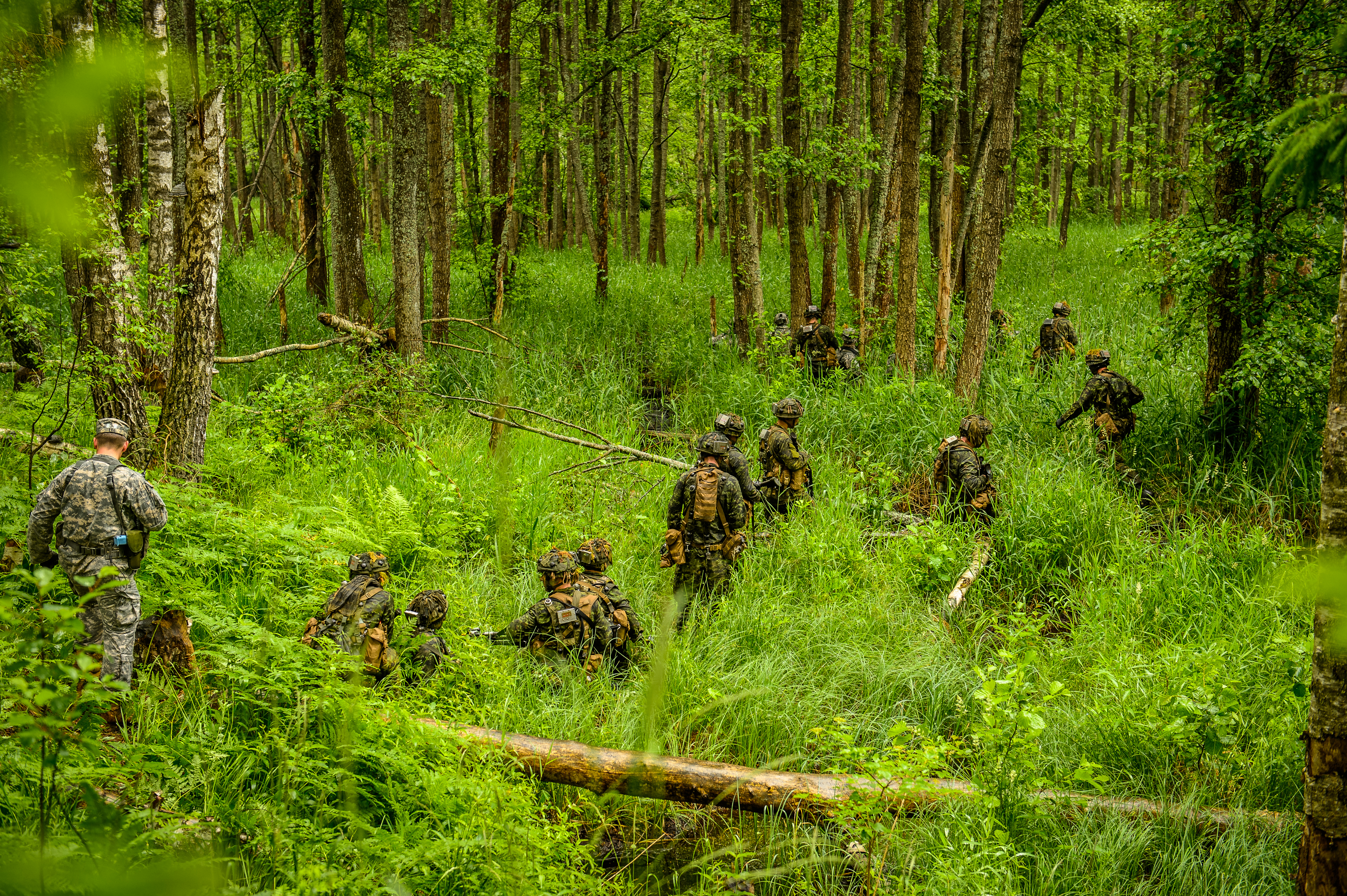 Canadian and U.S. Soldiers maneuver through the woods to an objective point during the field training portion of the Saber Strike exercise on June 16, 2014. Saber Strike 2014 is a joint, multinational military exercise scheduled for June 9- 20. The exercise spans multiple locations in Lithuania, Latvia and Estonia, and involves approximately 4,500 personnel from 10 countries. The exercise is designed to promote regional stability, strengthen international military partnerships, enhance multinational interoperability and prepare participants for worldwide contingency operations. (U.S. Army National Guard photo by: Staff Sgt. Brett Miller, 116 Public Affairs Detachment/ Released)